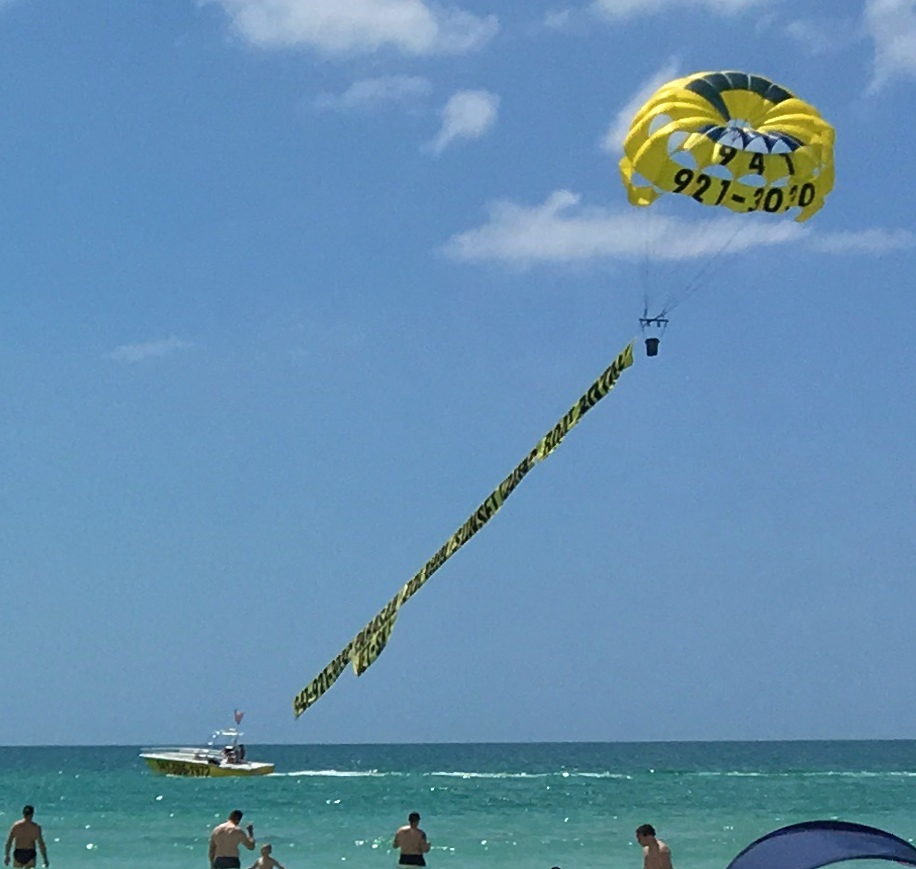 A Aerial advertising at Crescent Beach on Siesta Key